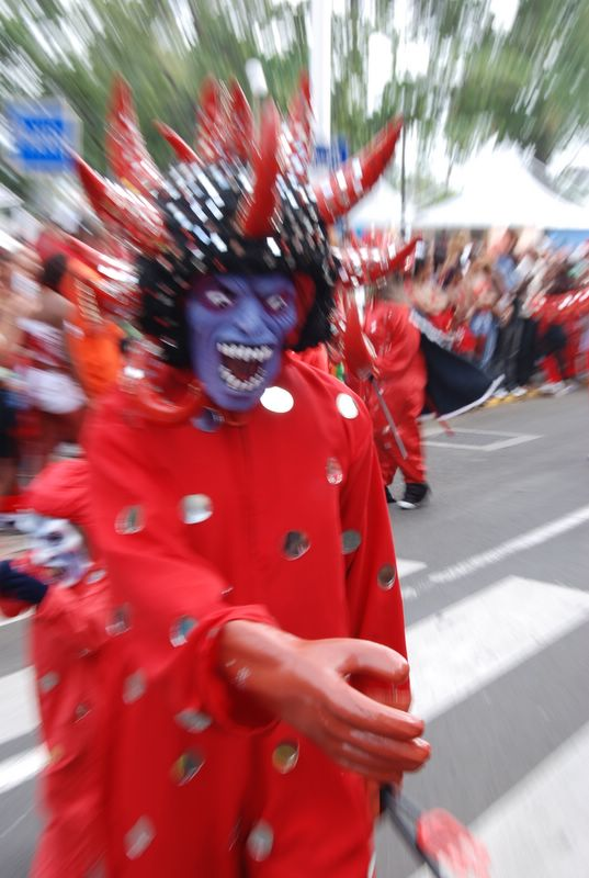 Picture taken by Achristoffersen at martinique Carnival 2007.